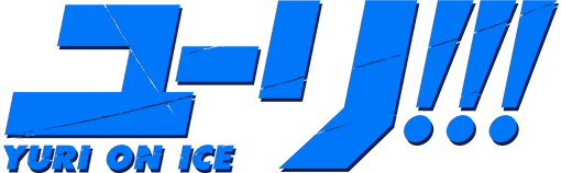 Yuri on Ice logo